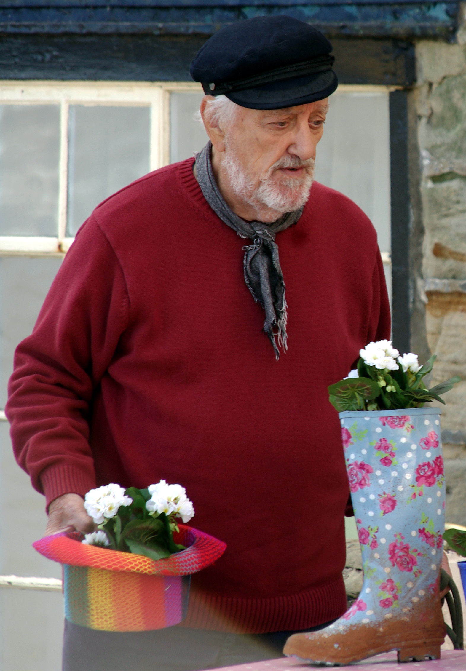 A BBC camera crew filming for the new CBeebies show "Old Jack's Boat", starring Doctor Who alumni Freema Agyeman (Martha Jones) and Bernard Cribbins (Wilfred Mott). Here Cribbins is presenting Agyeman with a rainbow hat flowerpot (shortly to be smashed). This was shot in Staithes, North Yorkshire.